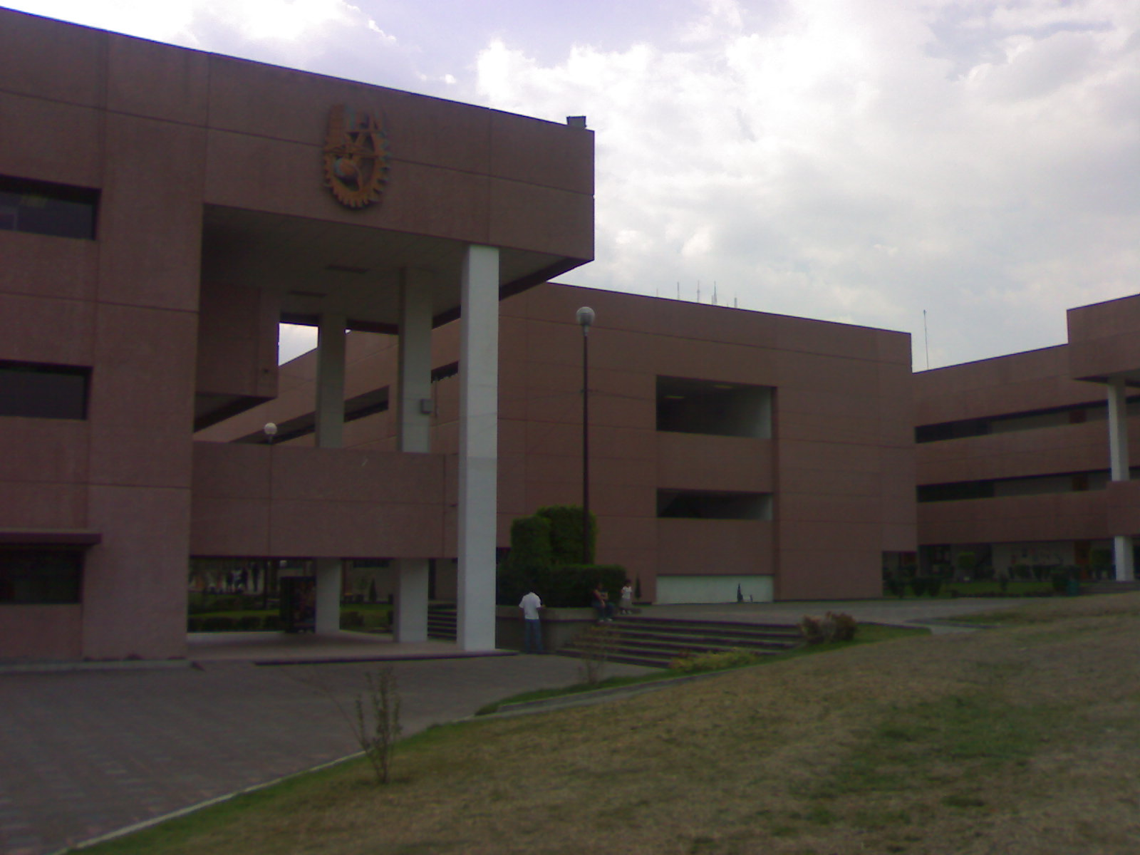 UPIITA-IPN